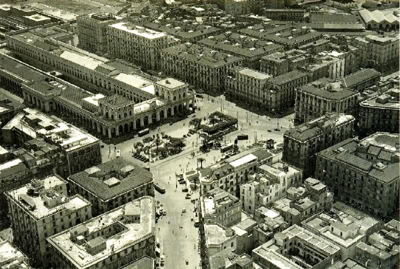 Piazza Garibaldi before 1960, when the old station was demolished)